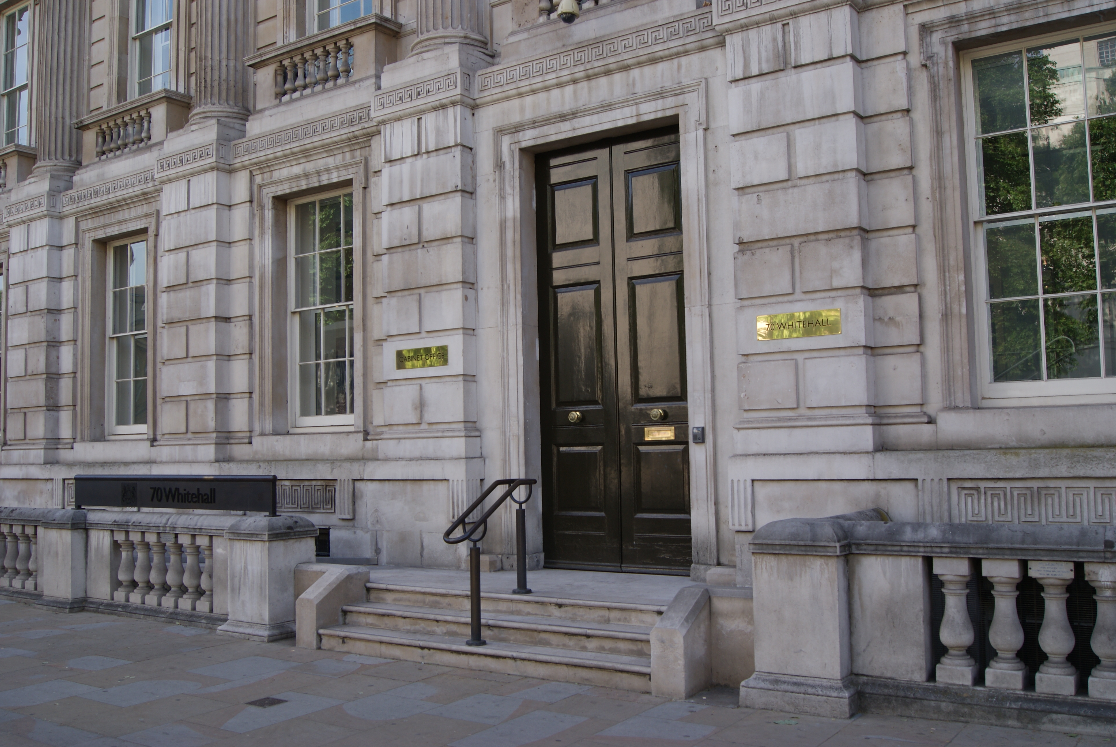 The entrance to the Cabinet Office at 70 Whitehall, London, UK.